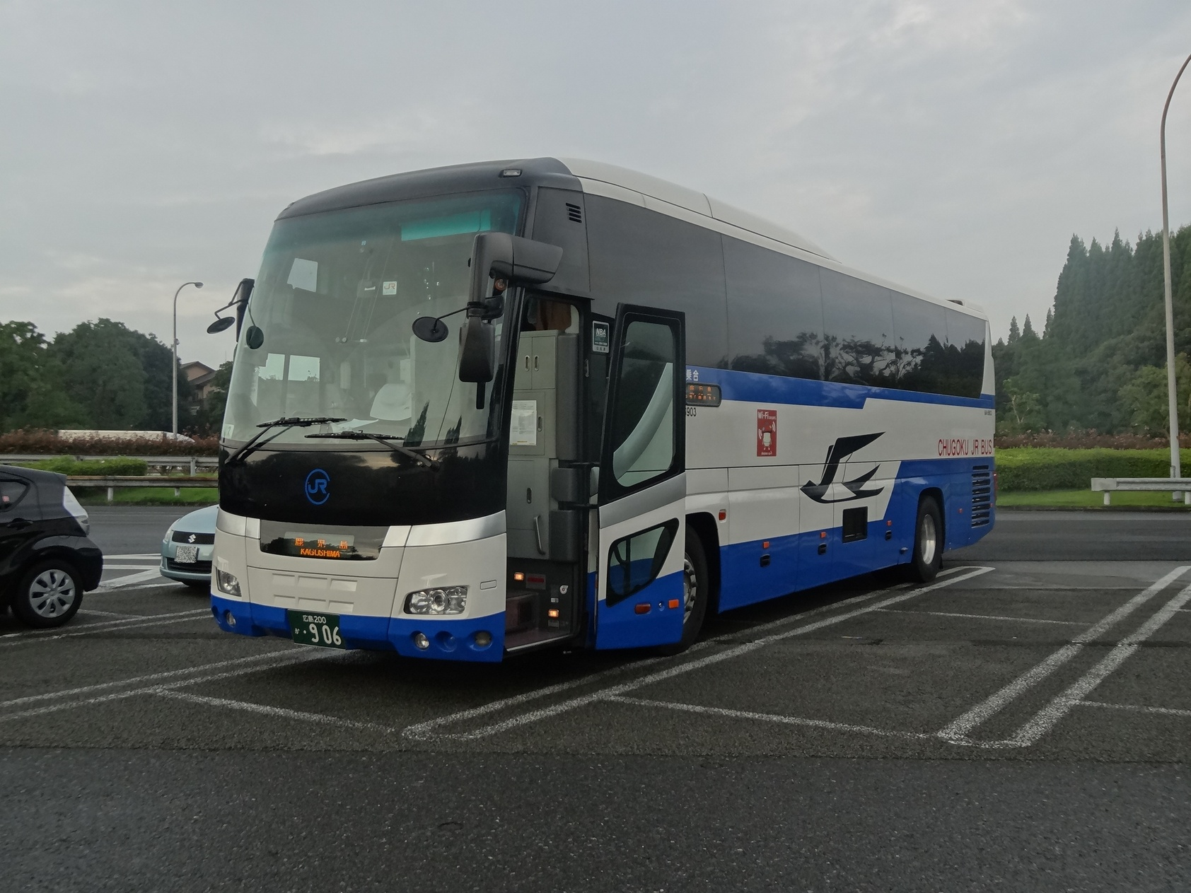 Kagoshima Dream Hiroshima Go (Chugoku JR Bus)